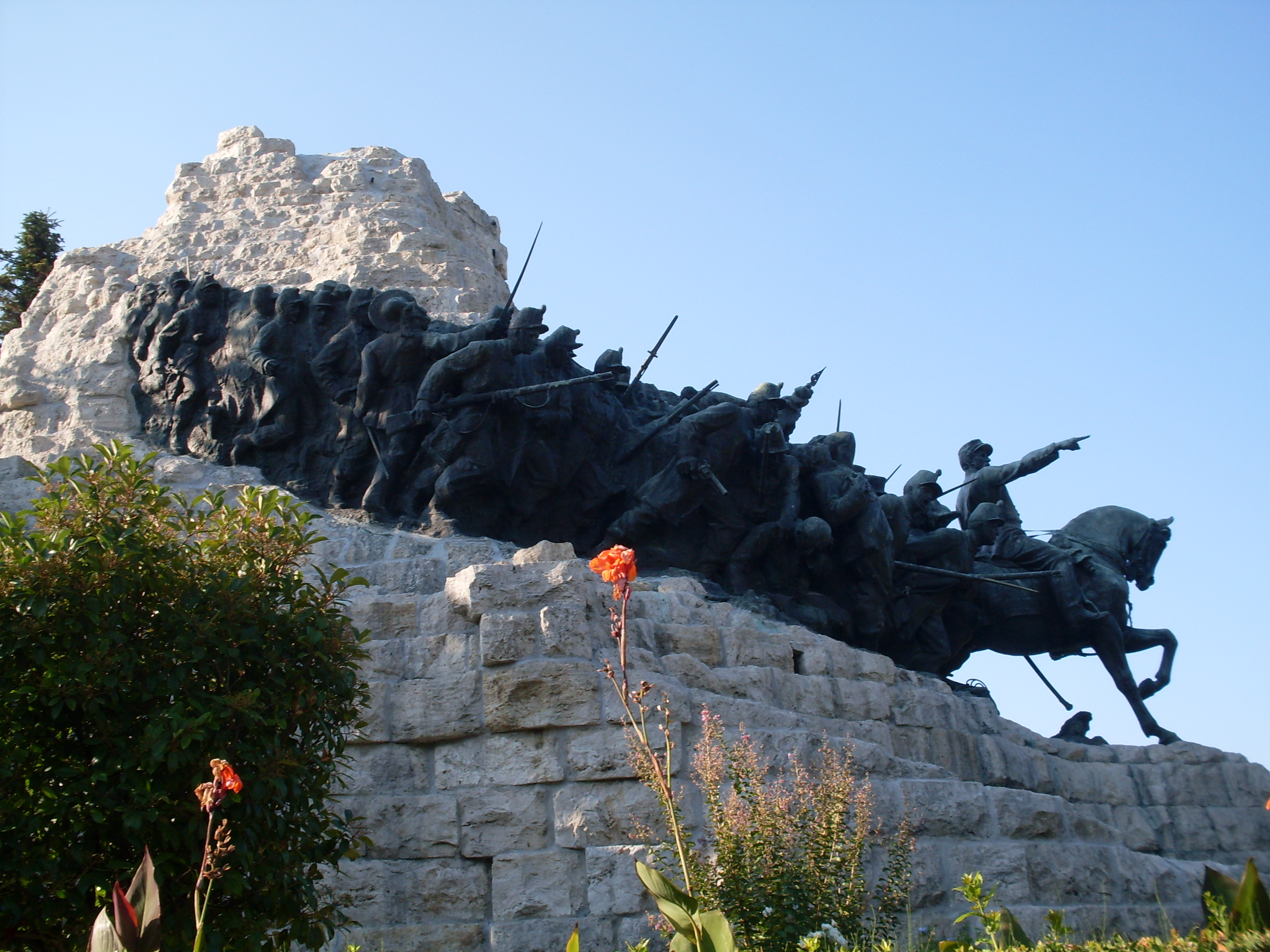 Castelfidardo monument - sculptor Vito Pardo